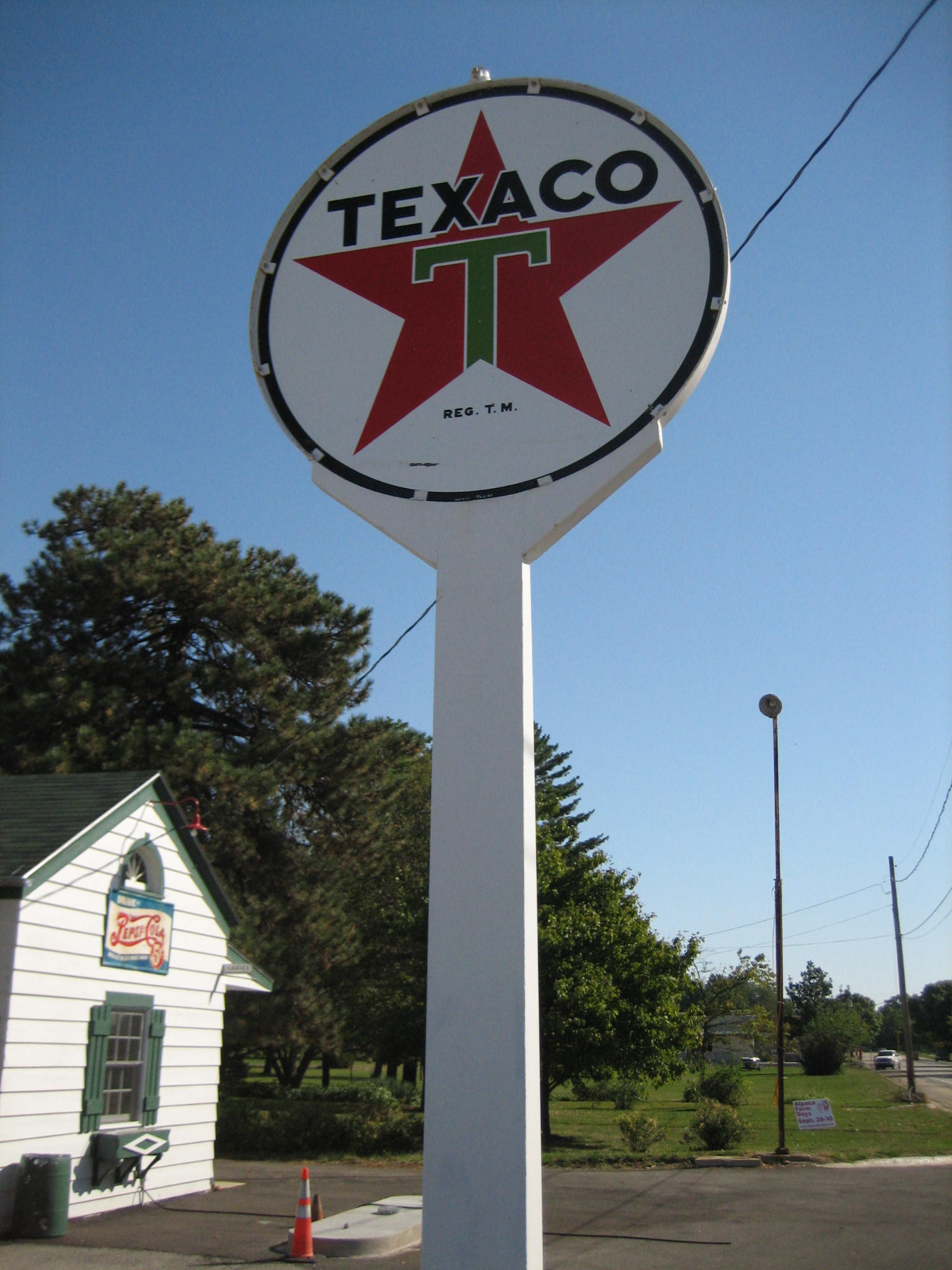 Ambler's Texaco Gas Station, Dwight, Illinois, USA, along historic U.S. Route 66.